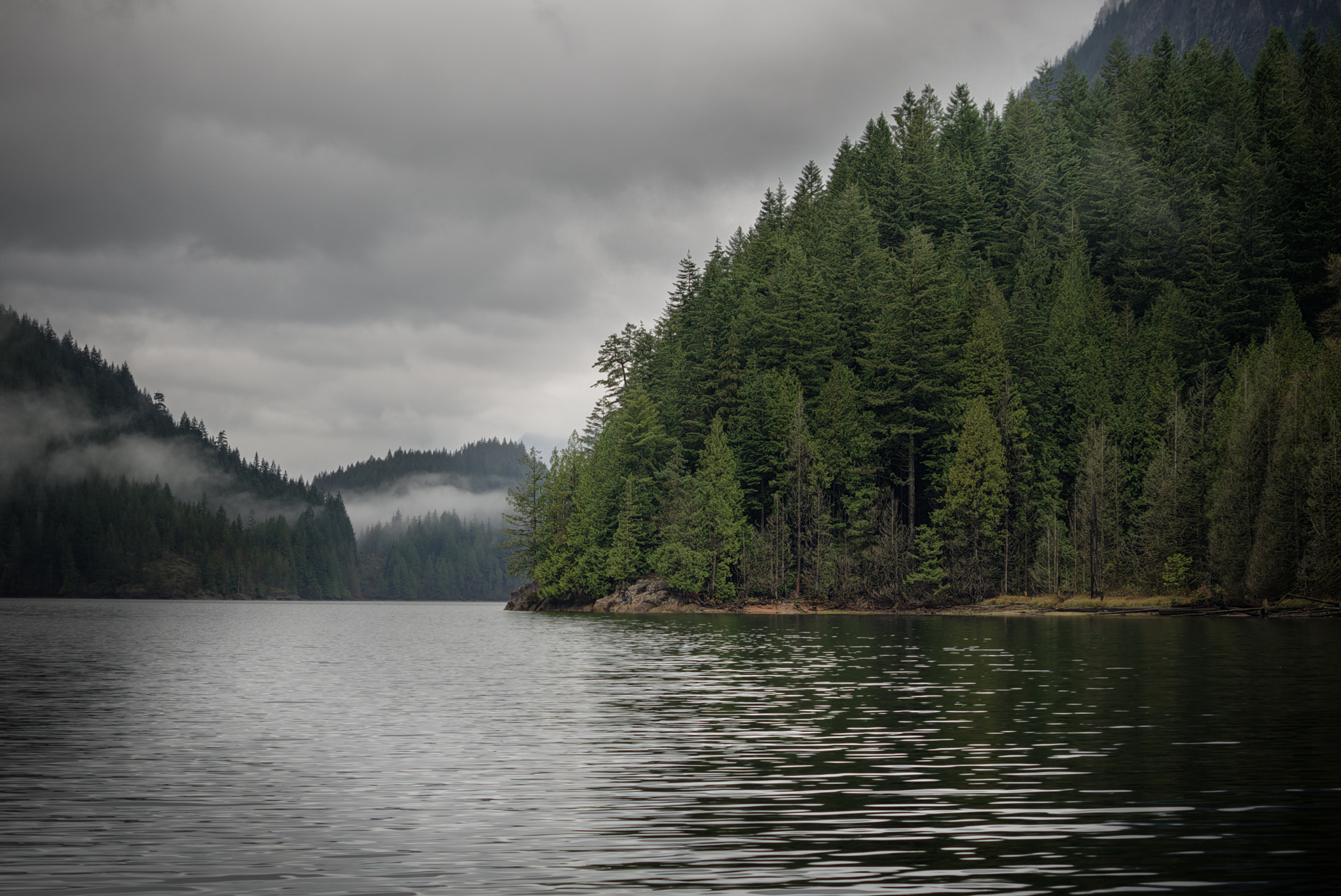 500px provided description: Another dreary day in BC over the winter. So much rain. [#Fall ,#Winter ,#Summer ,#Macro ,#Wildlife ,#Spring ,#qwest end ,#Waterfall River Water Snow Waterdown Ice Freezing Trees Old Mill Falls Afternoon Ontario Canada]